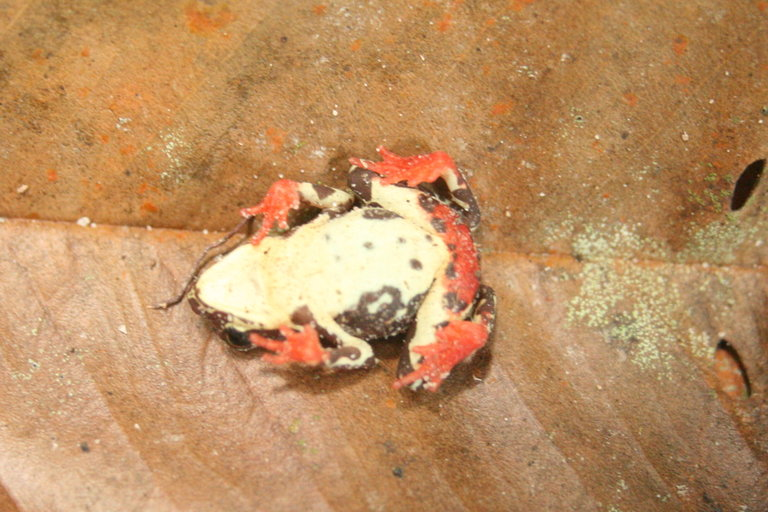 Atelopus spumarius